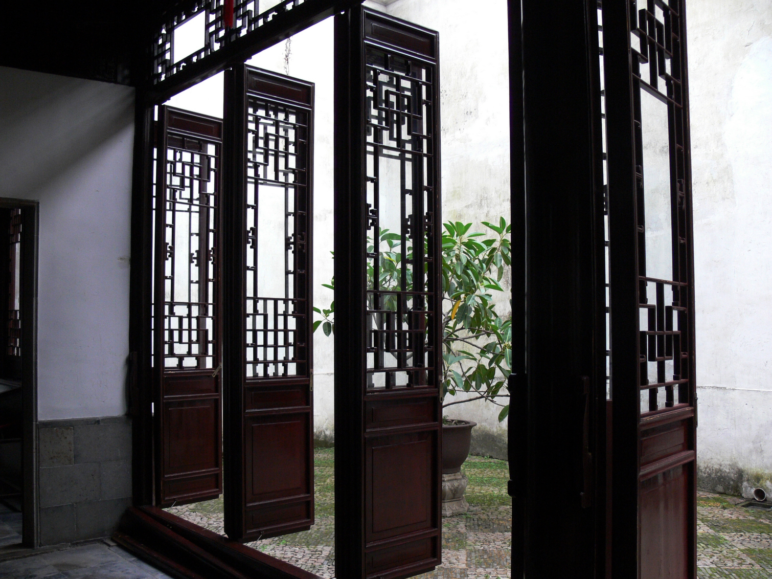 Doors of Chinese traditional house